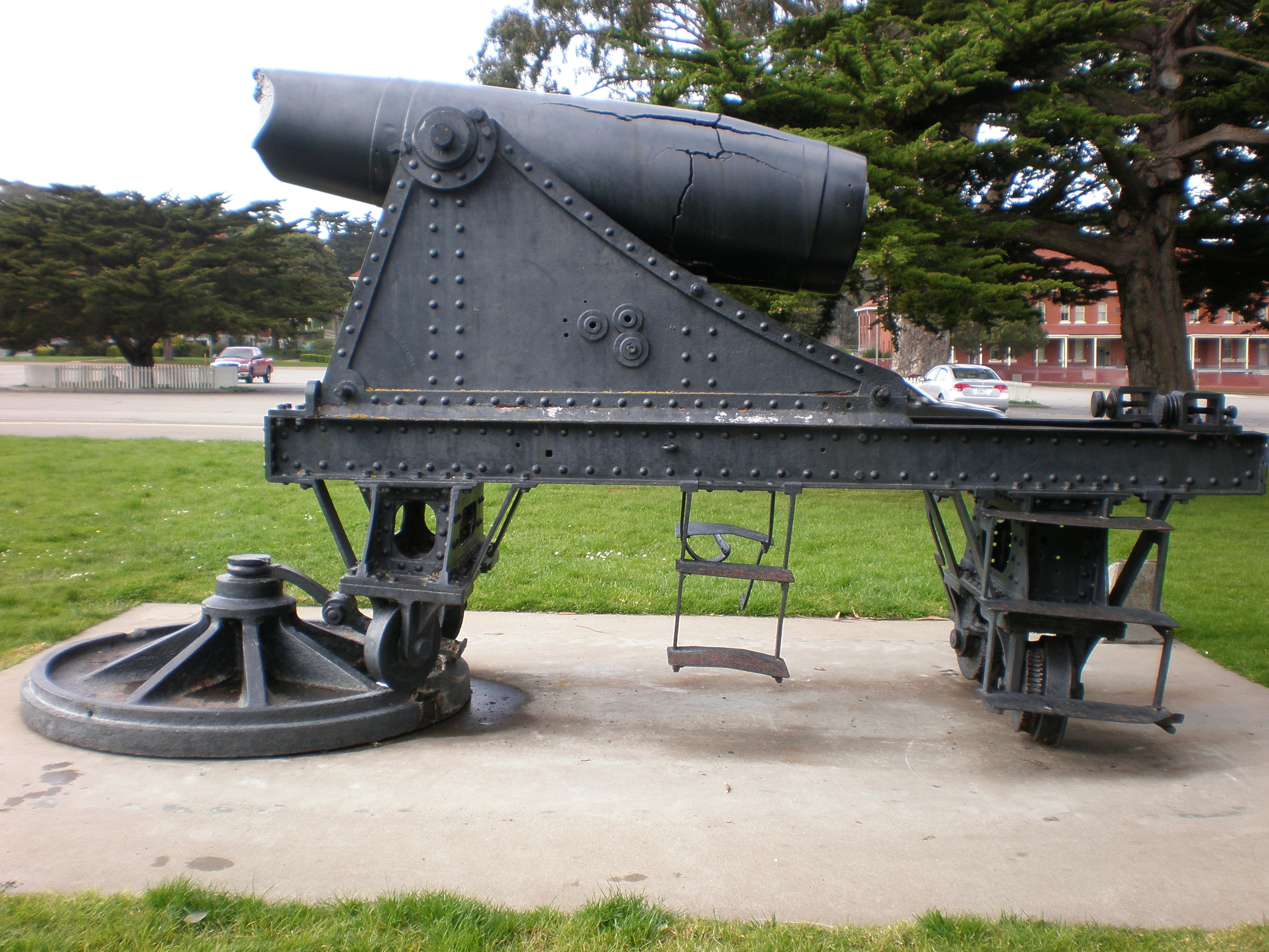 An Ordoñez gun originally from a Spanish coastal fort at Subic Bay, Philippines, which was later captured by Filipino forces. The gun was reportedly destroyed during an American attack on Subic Bay in September 1899, but some historians believe the damage was due to a shell explosion. William Randolph Hearst acquired this gun and presnted it to the City of San Francisco where it was on display at Columbia Square Park in 1973 before being moved to the Main Post of the Presidio of San Francisco.